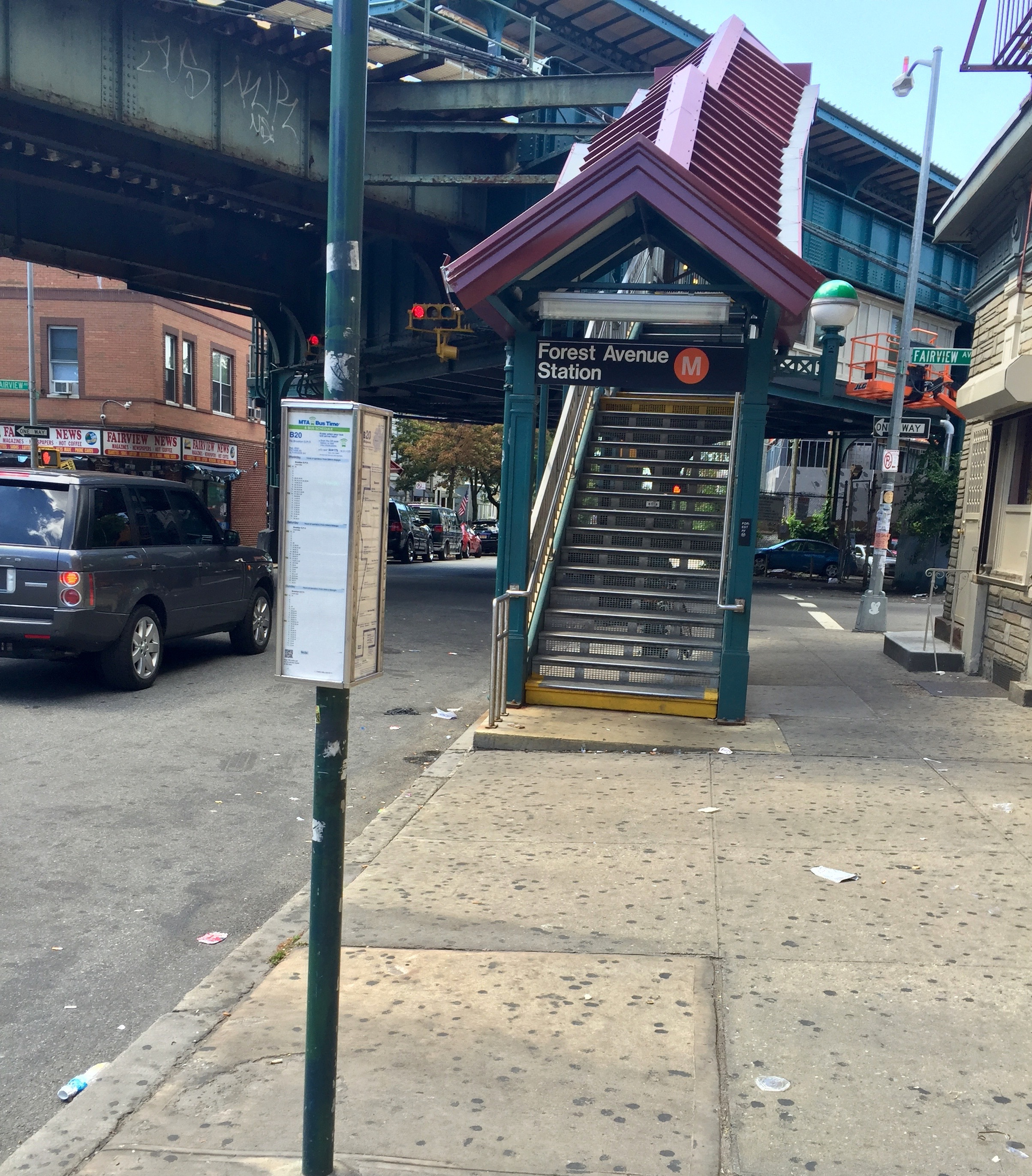 Entrance to Forest Avenue on the M.